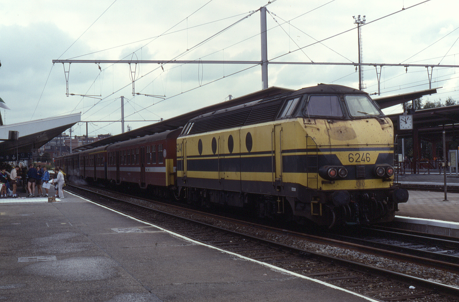 6246 is seen at Hasselt on 6 October 1991 - these worked services through to Mol, usually one every two hours.